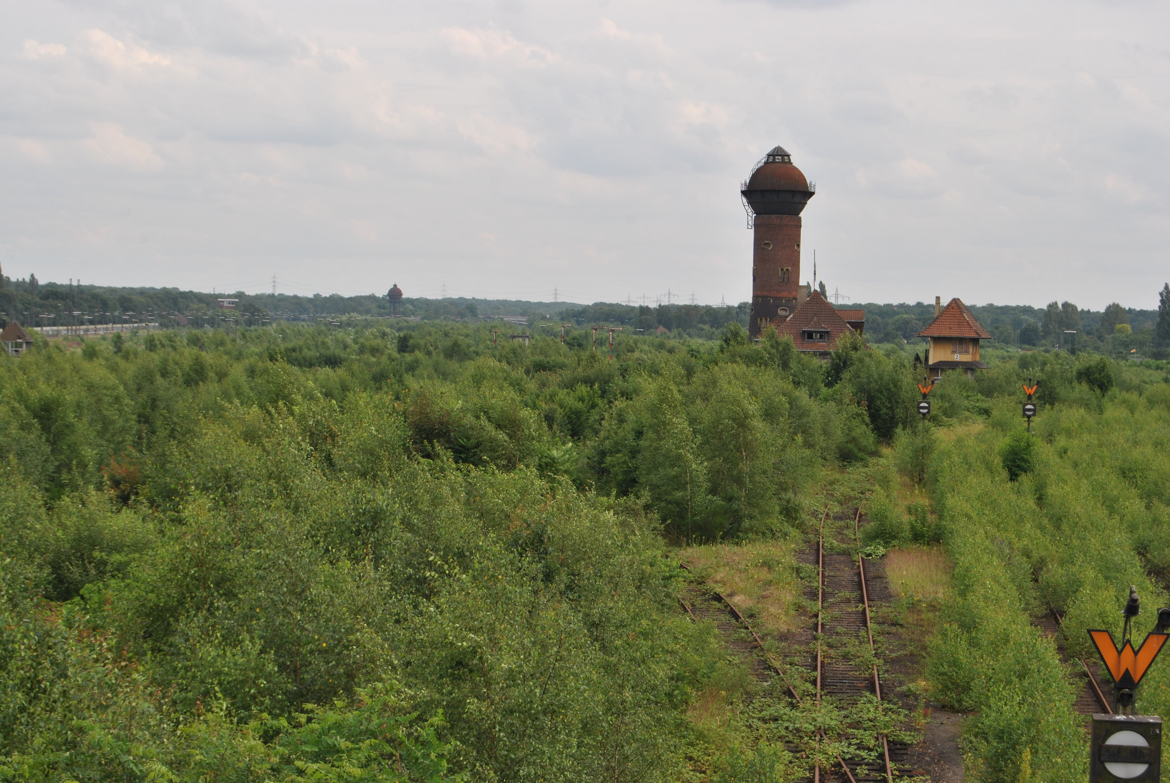 This photograph was taken with a Nikon D3000 This image shows a heritage building in Germany, located in the North Rhine-Westphalian city Duisburg. Ehemaliger Rangierbahnhof Wedau mit dem Ablaufwerk Nord im Vordergrund - Denkmalliste Duisburg, Nr. 169 und 170 - Koordinaten: 51.23'58.71"N, 6.48'6.52"E, Blickrichtung 15